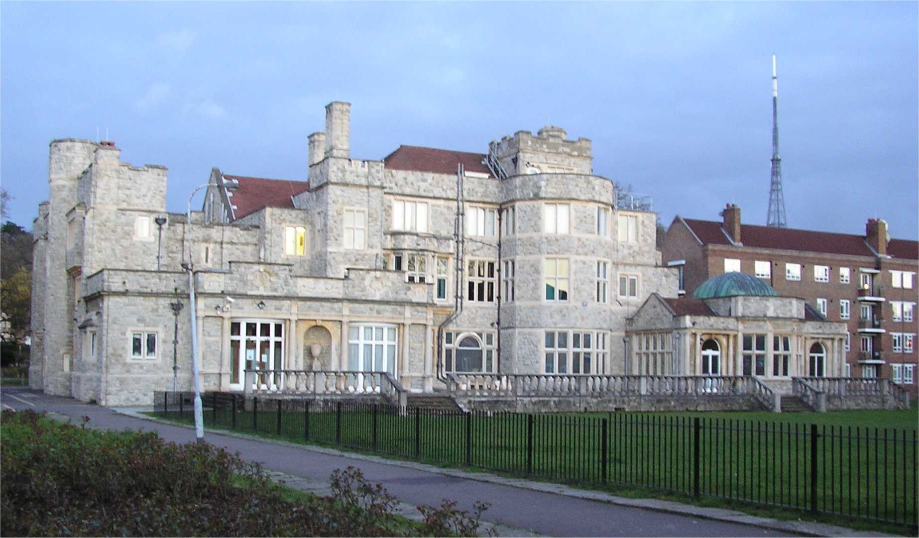 Kingswood House, Dulwich now in the middle of a 1950's council housing estate, with part of the Crystal Palace transmitting tower showing in the background.